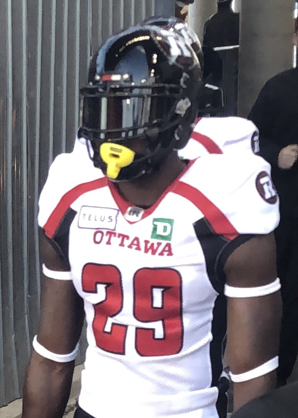 Kevin Francis, linebacker for the Ottawa Redblacks.